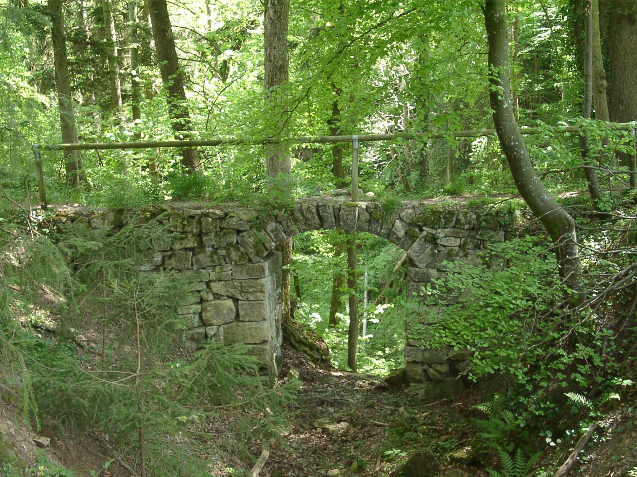 Roman bridge at the "Wolfsschlucht" (wolf's gulch) on the territory of Schwalldorf, suburb of Rottenburg am Neckar, adminstrative district of Tübingen (Baden-Württemberg/Germany).